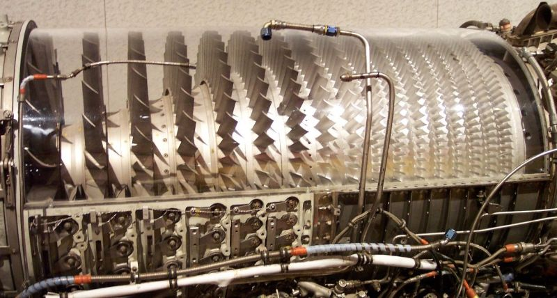 The compressor rotor of a GE J79 turbojet engine.